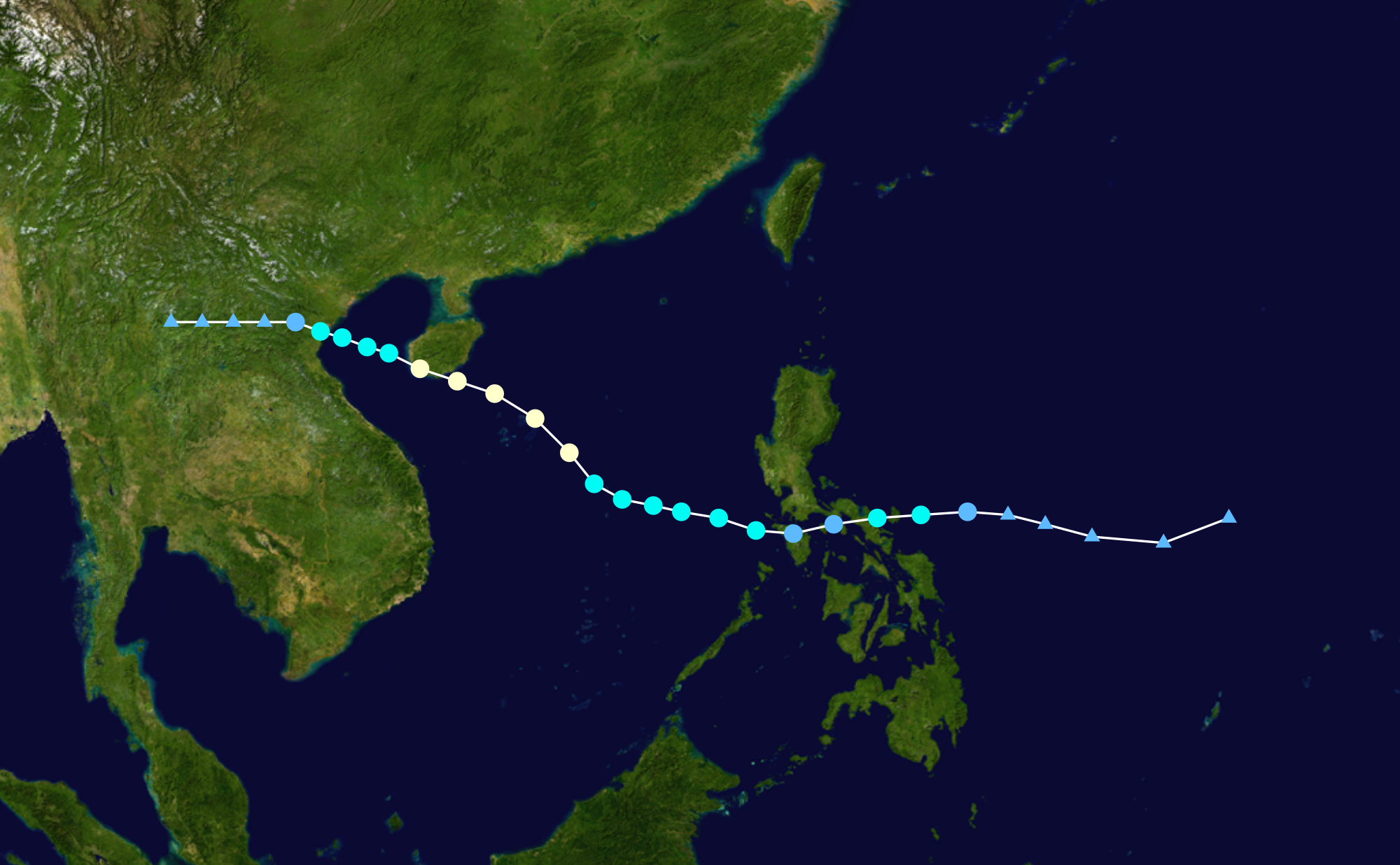 Typhoon Kelly 1981 track. Uses the color scheme from the Saffir-Simpson Hurricane Scale.